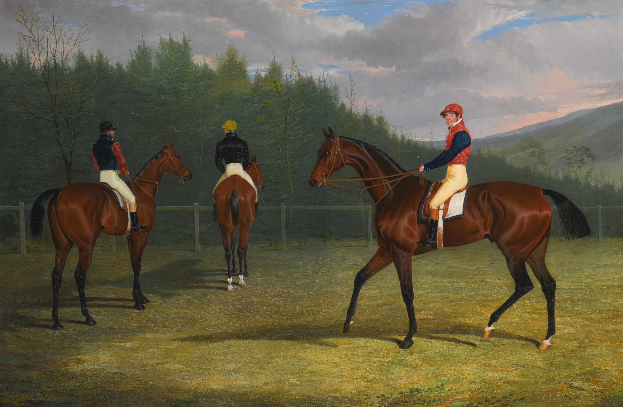 The start of the Goodwood Gold Cup, 1931, Lord Chesterfield's Priam, His Majesty King William IV's Fleur De Lis, and mr. Stonehewer's Variation oil on canvas 70.5 x 106.5 cm signed b.r.: J.F.Herring / 1832